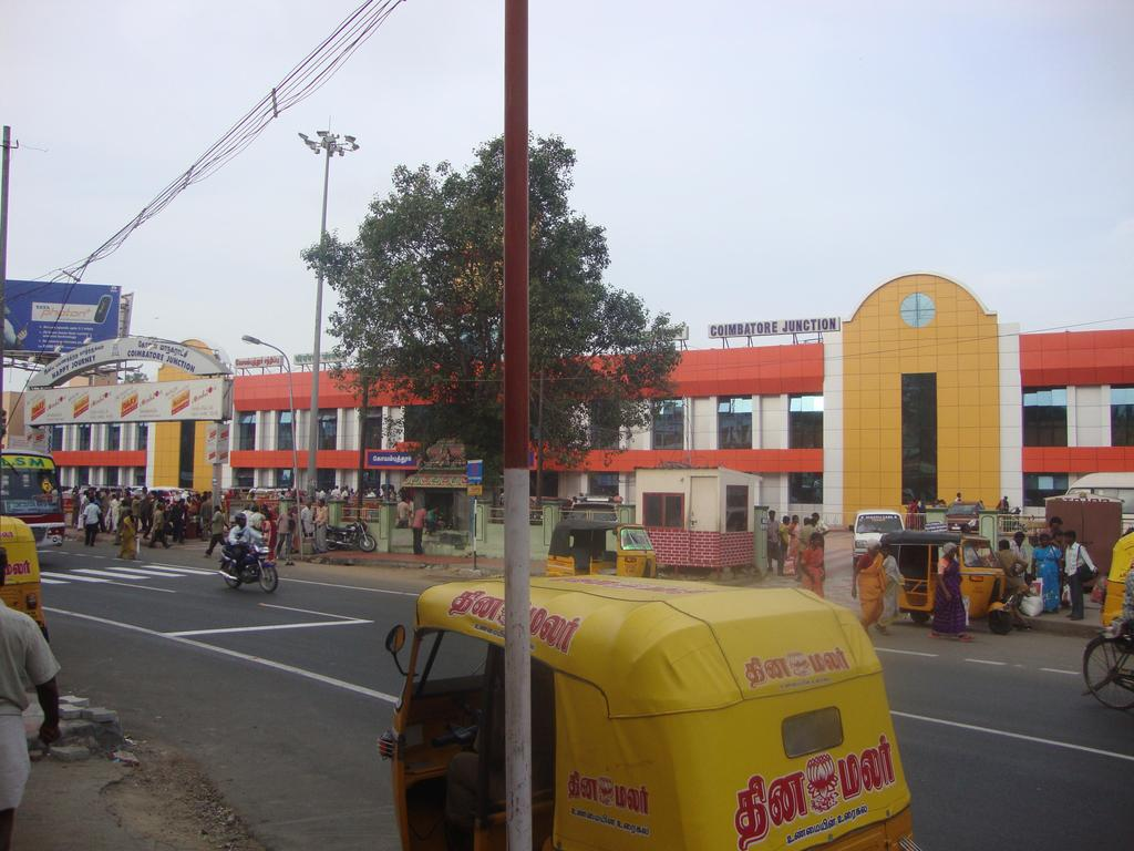 CBE city railway junction